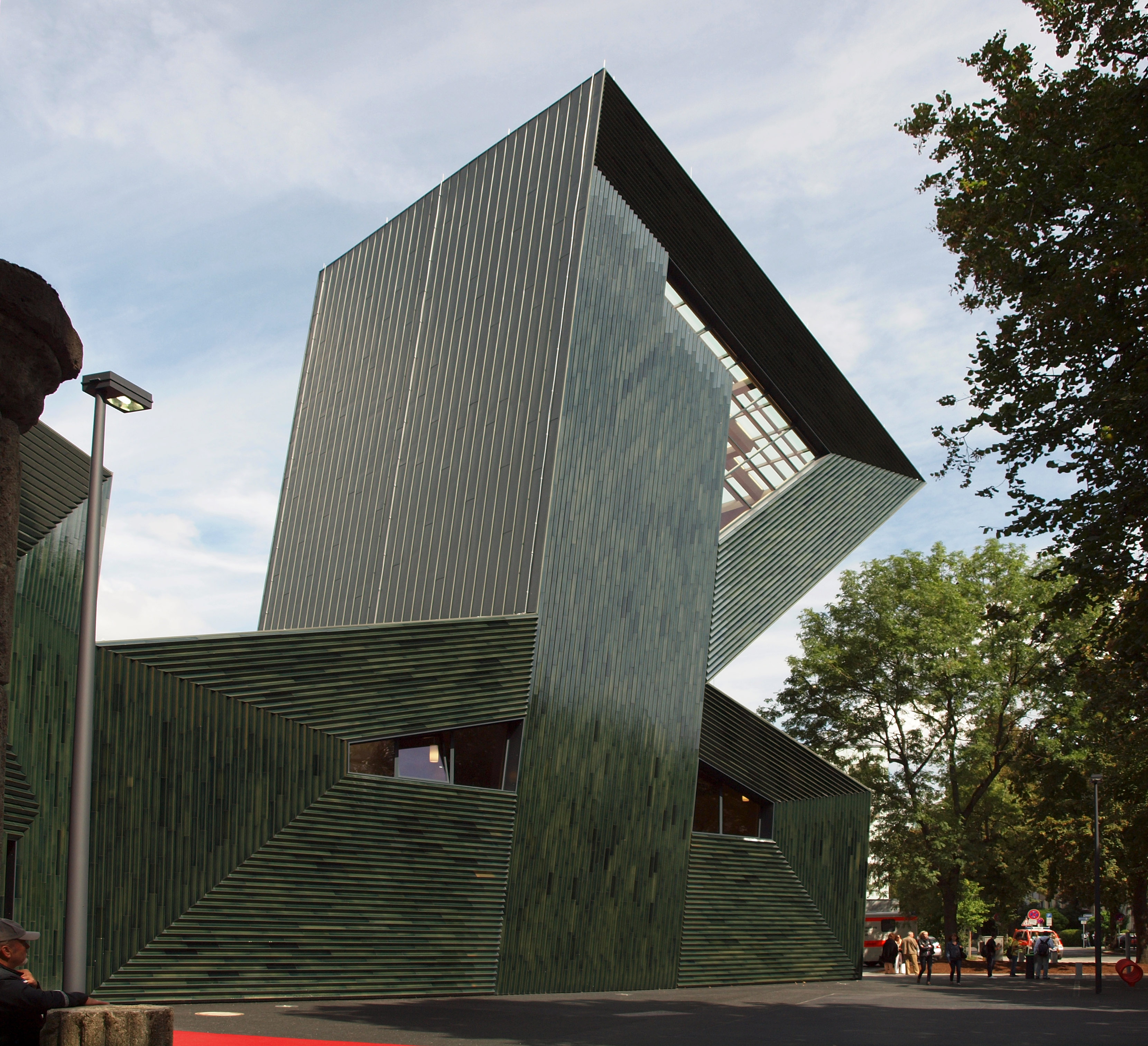 Exterior view of part of the New Synagogue in Mainz.